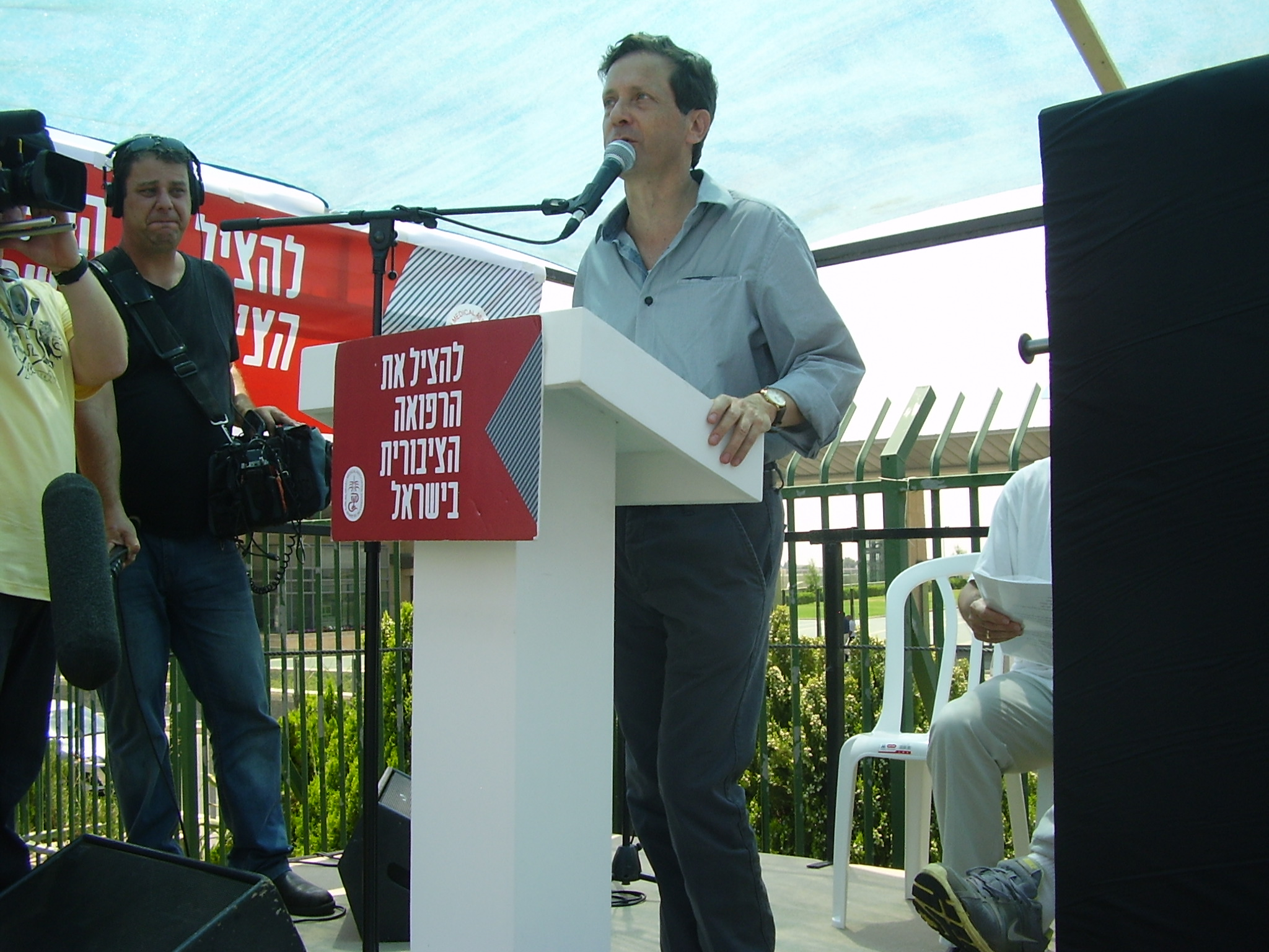 Doctors Protest in Jerusalem-M.K Yitzhak Herzog